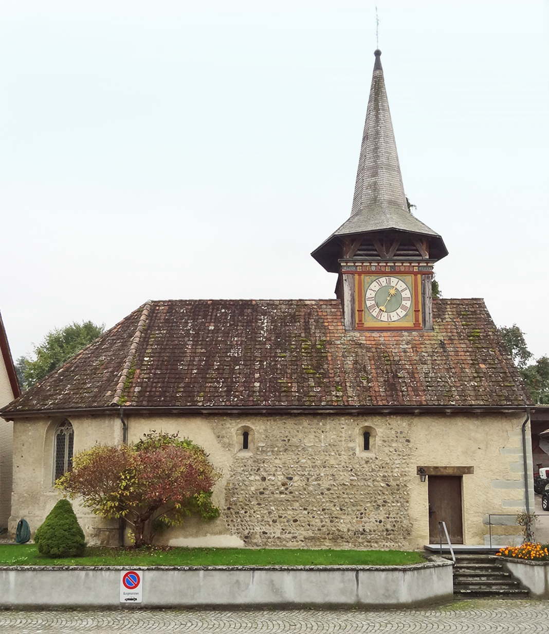 Chapel of Triboltingen, Switzerland